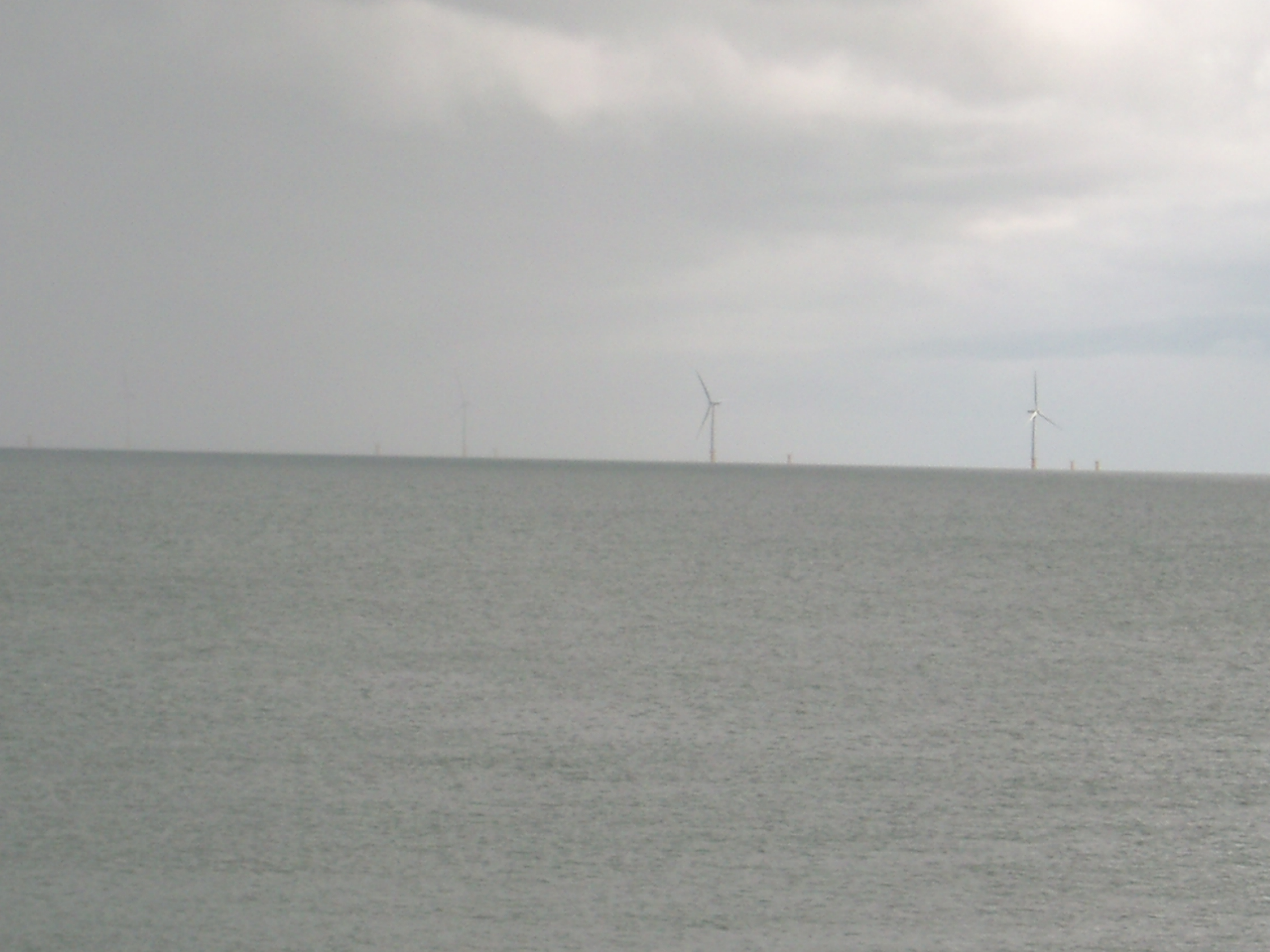 Wind turbines of the Rhyl Flats Offshore Wind Farm in the distance, as seen from Penrhyn Bay, Wales.